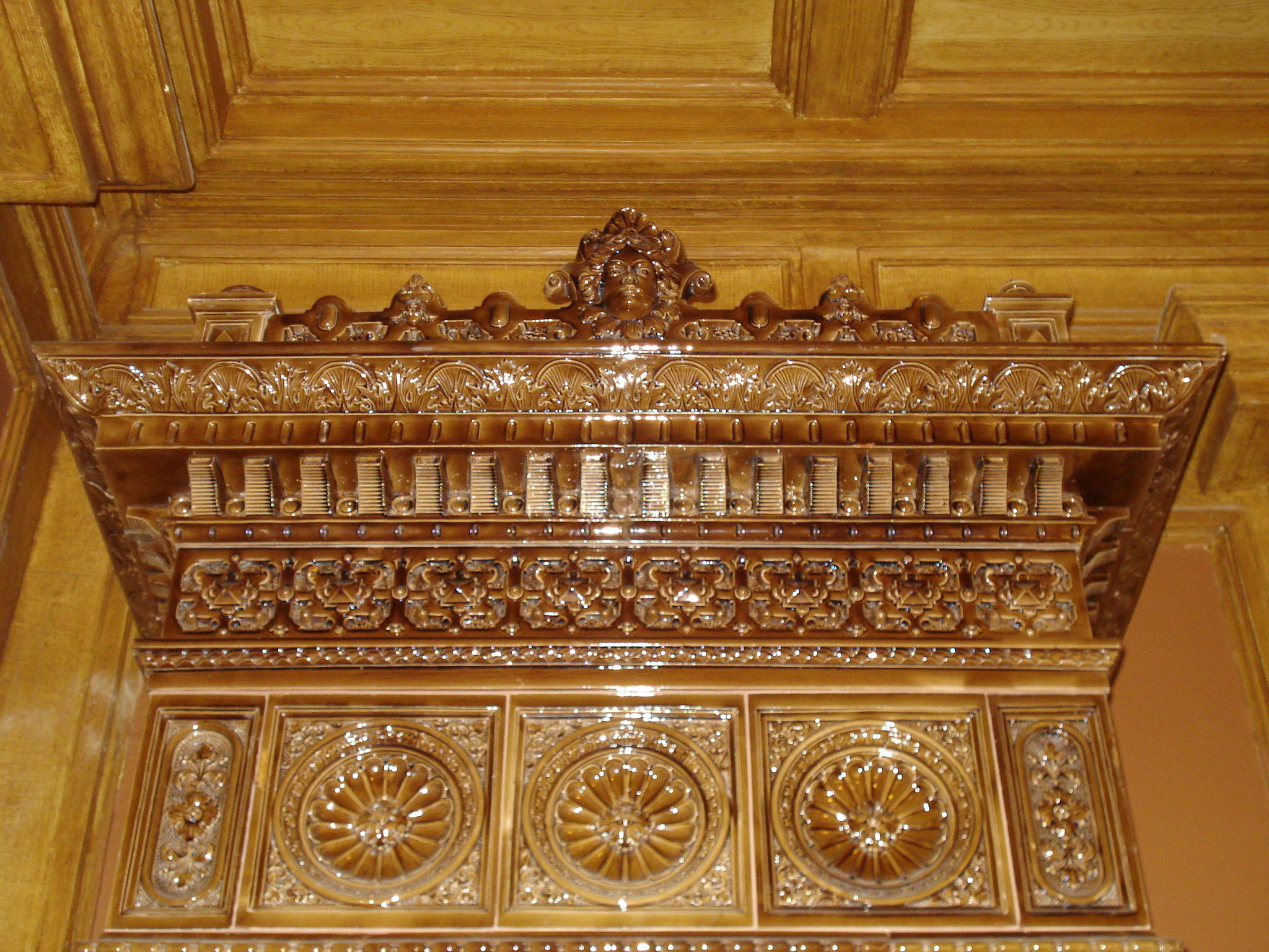 Tiled stove in the former dining room in the palace of the Vileišis family (now conference hall of the Institute of Lithuanian Literature and Folklore). Detail